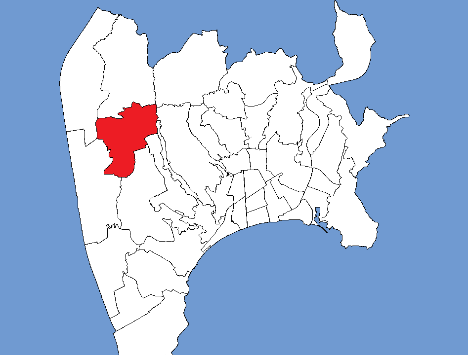 Location of the neighbourhood Cremat in Nice